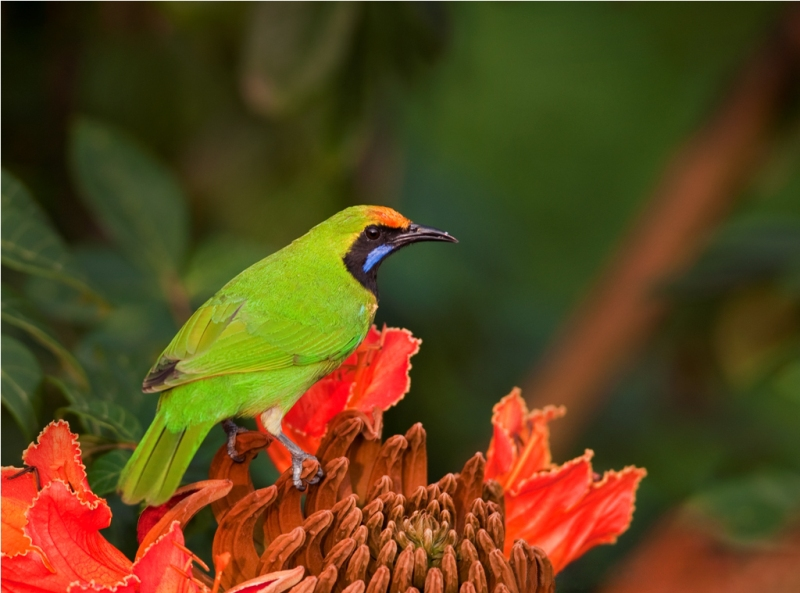 Gold-fronted Chloropsis (leafbird) संस्कृतम्: पत्रेषु आत्मानं गोपयति इत्यतः पत्रगुप्तः